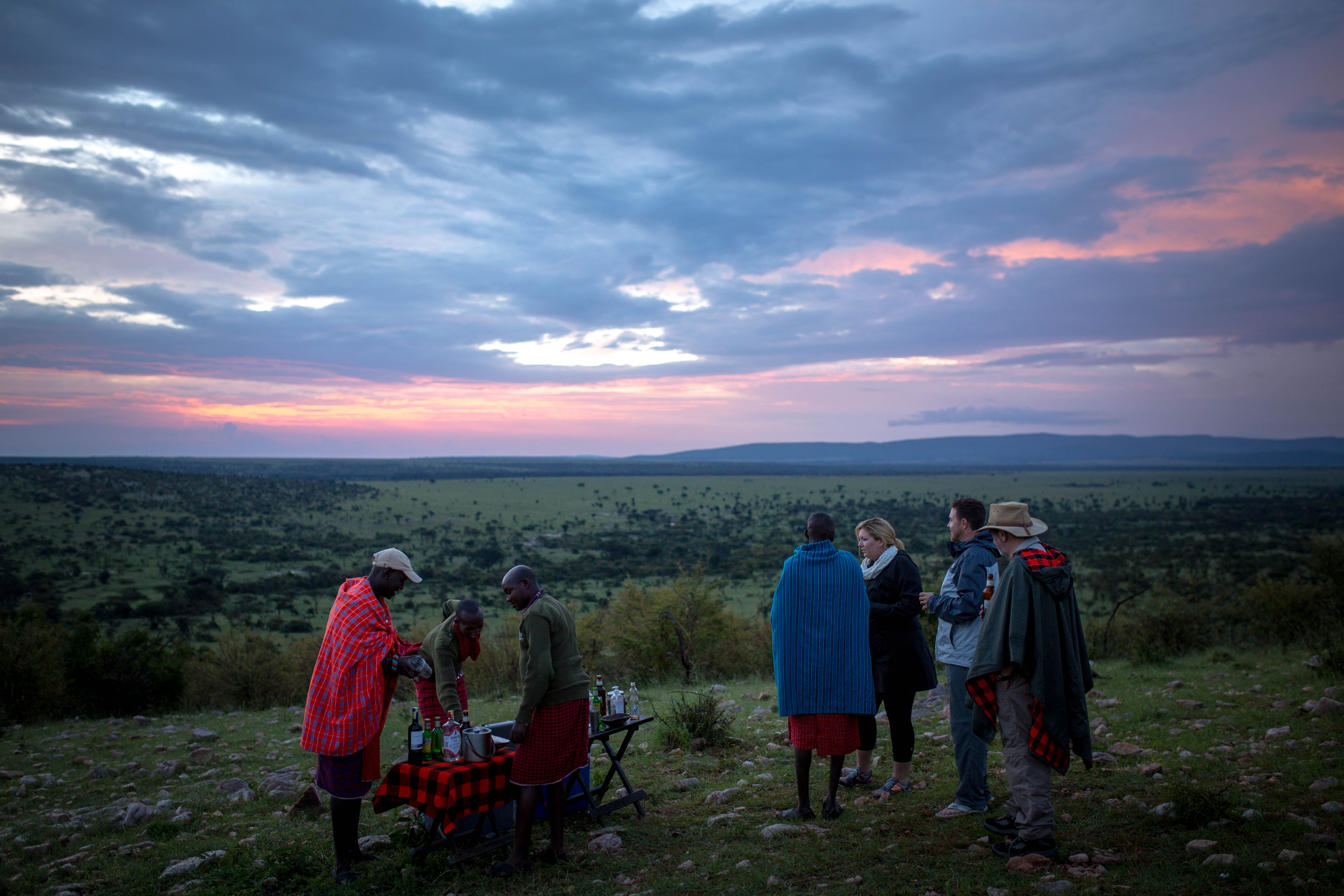 KENYA, Ol Kinyei, Maasai Mara: In a photograph taken by the Ministry of East African Affairs, Commerce and Tourism (MEAACT) 13 June 2015, tourists enjoy sundowners served by their Maasai guides in the Ol Kinyei Conservancy in Kenya's Maasai Mara. The management of Ol Kinyei and similar conservancies bordering the Maasai Mara National Reserve and in other areas of Kenya is an alternative approach to wildlife conservation. The land on which the conservancies are located is leased from local communities who directly benefit from its use to naturally host and protect wildlife populations. The privately owned and managed conservancies also offer employment to members of these communities and further opportunity of training in different areas of expertise from guides and trackers to chefs and camp management. Strict regulation of visitor numbers and the construction of camps inside the conservancies also limit the amount of people and vehicles present at any given time, offering tourists a much more personal and exclusive wildlife safari experience while at the same time reducing stress on and the disturbance of wildlife populations, which quickly begin to return and repopulate areas and land transformed under the conservancy model. MANDATORY CREDIT: MEAACT PHOTO / STUART PRICE.